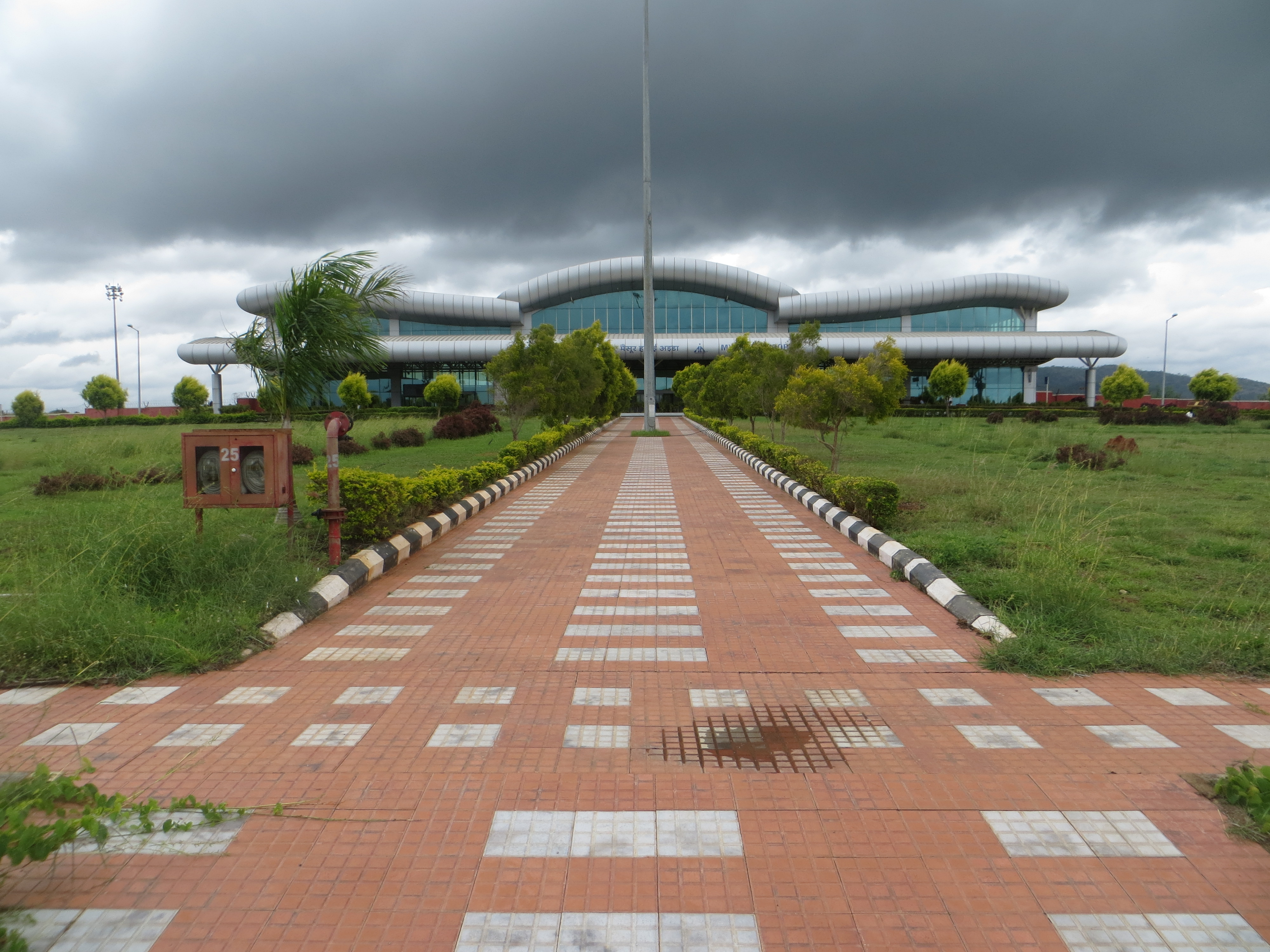 Pathway to Mysore Airport terminal, India